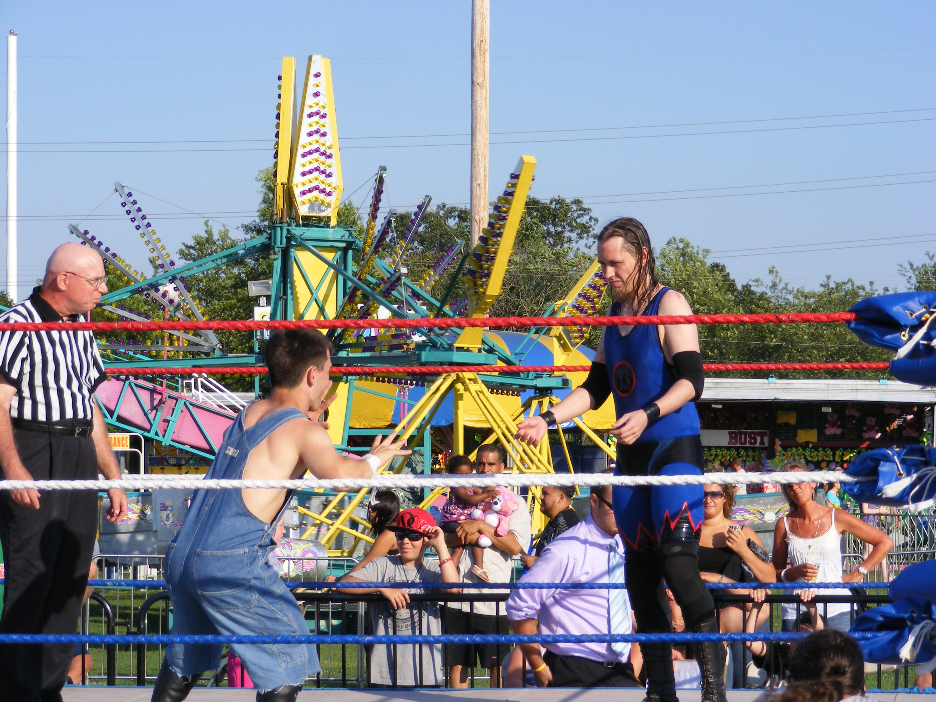 T.J. Richter faces off against midget wrestler Mini McGraw in East Providence during Power League Wrestling's "2011 Great Outdoors Tour".